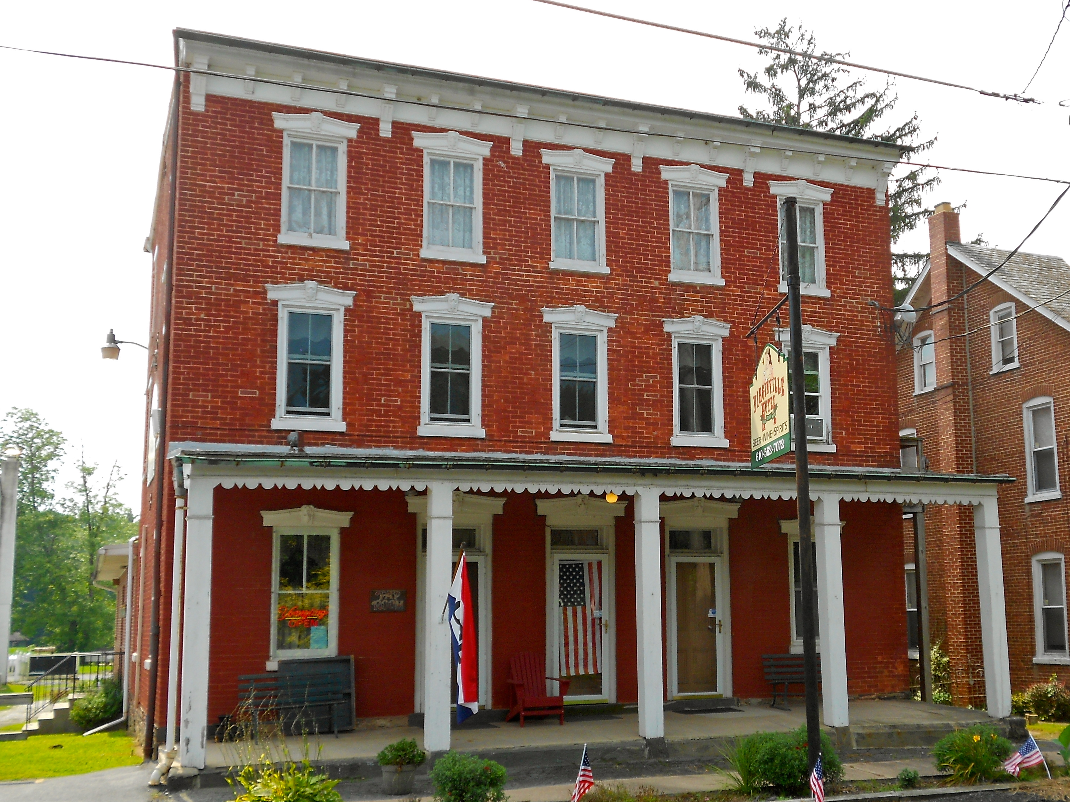 Virginville Hotel in Virginville Historic District , listed on the NRHP on September 28, 2000 . The historic district included Main, 2nd, 1st, and Front Streets and Chapel Drive in Virginville, Richmond Township, Berks County, Pennsylvania